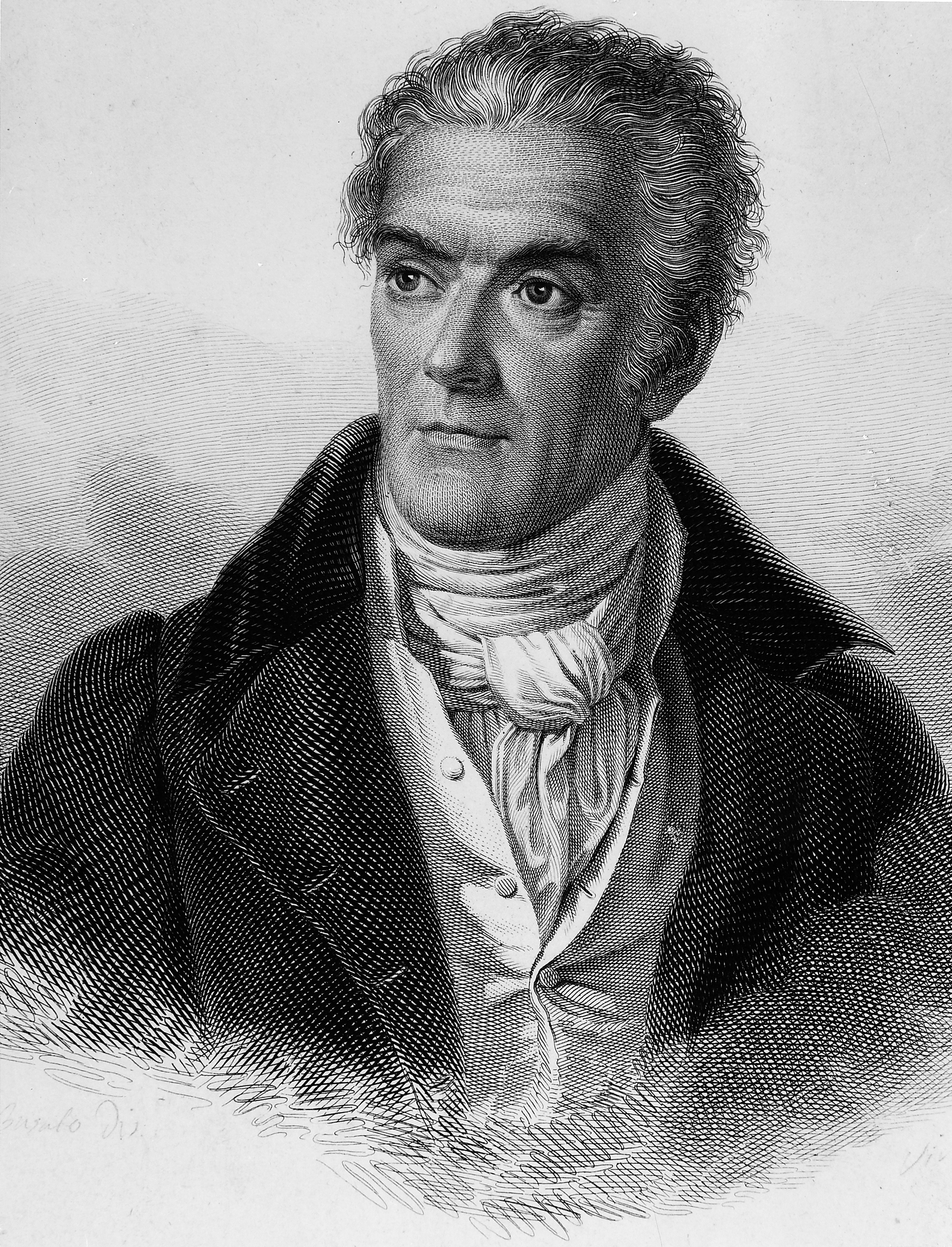 Portrait of Francesco Aglietti, half-length to left Iconographic Collections Keywords: Busato; Francesco Aglietti; Viviani